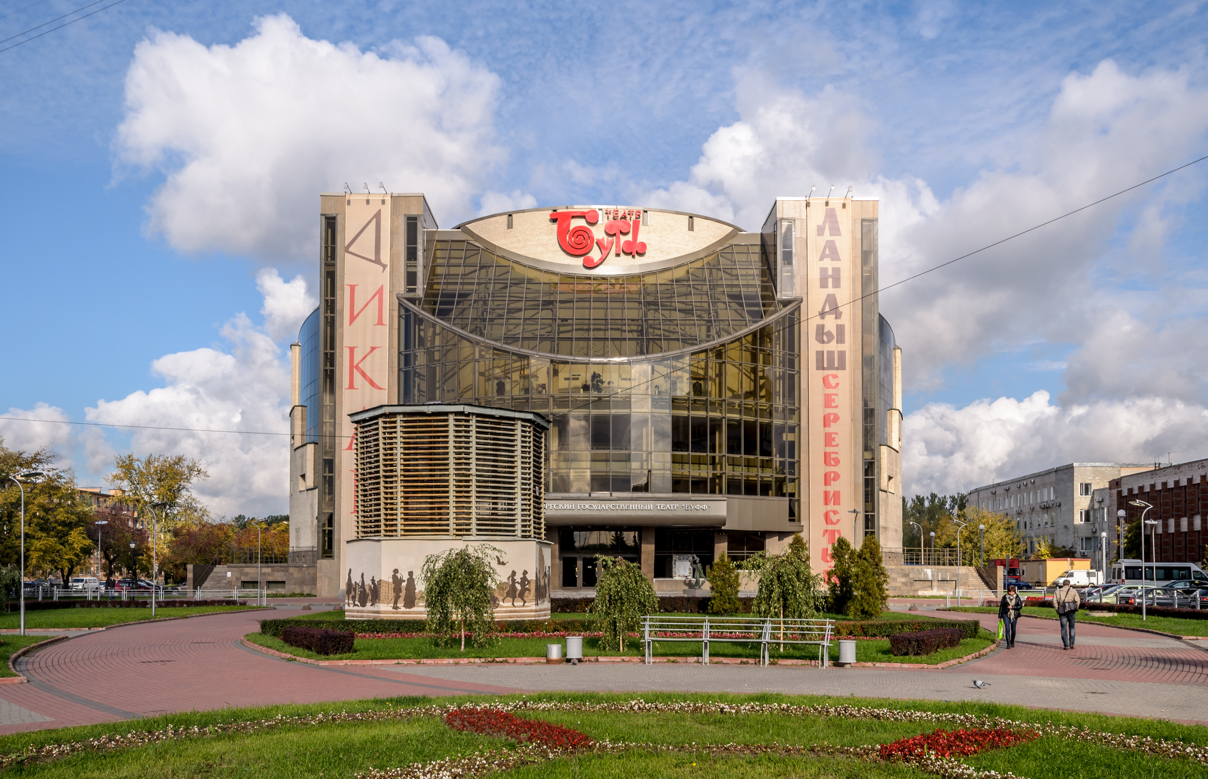 Theater Buff in Saint Petersburg